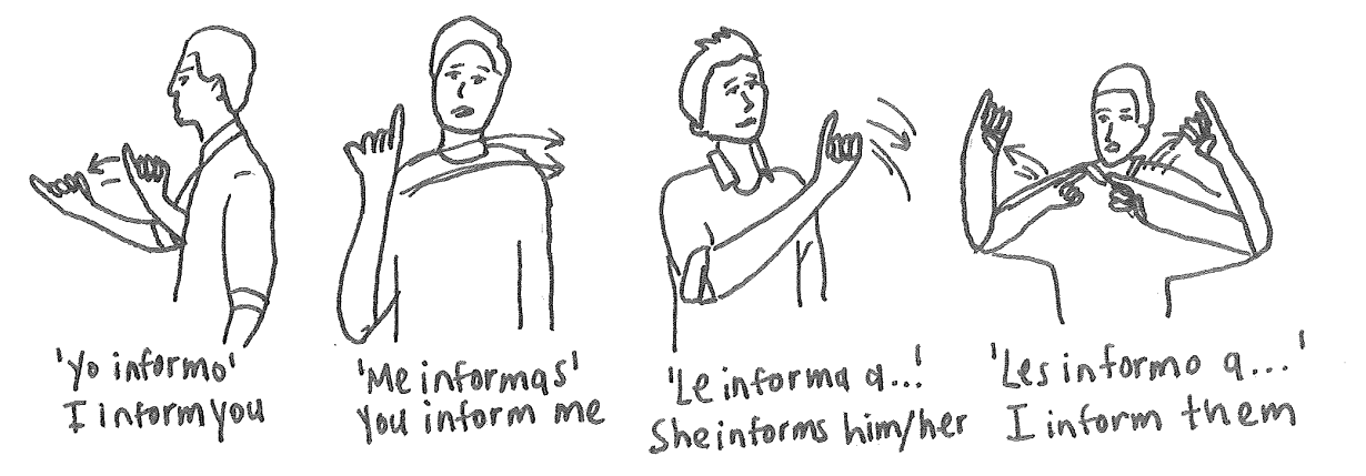 It shows how the sign changes with different ways to use the verb "to inform" in LSC.